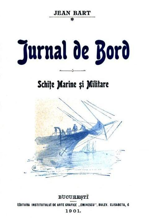 Title page of "Jurnal de bord, schiţe marine şi militare" by Jeand Bart published by Editura Institutului de Arte Grafice Eminescu, Bucureşti in 1901.